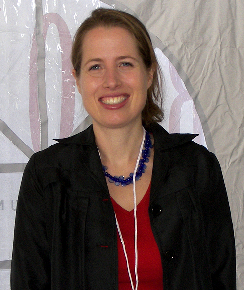 Kristin Gore at the 2007 Texas Book Festival, Austin, Texas, United States.